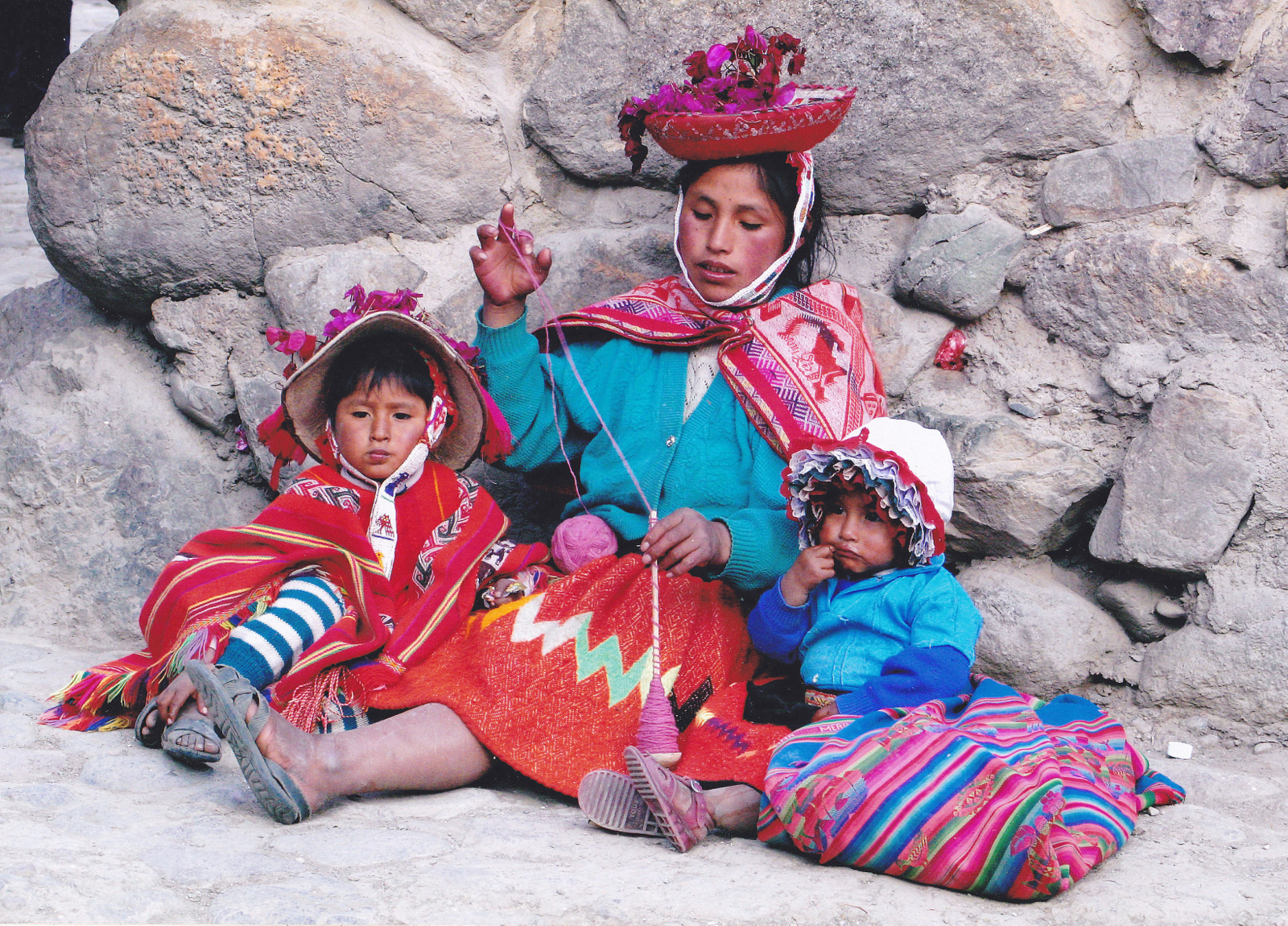 Quechua Indian woman spinning with the drop spindle and her two children who are